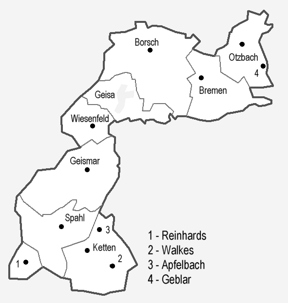 District-Maps of Geisa